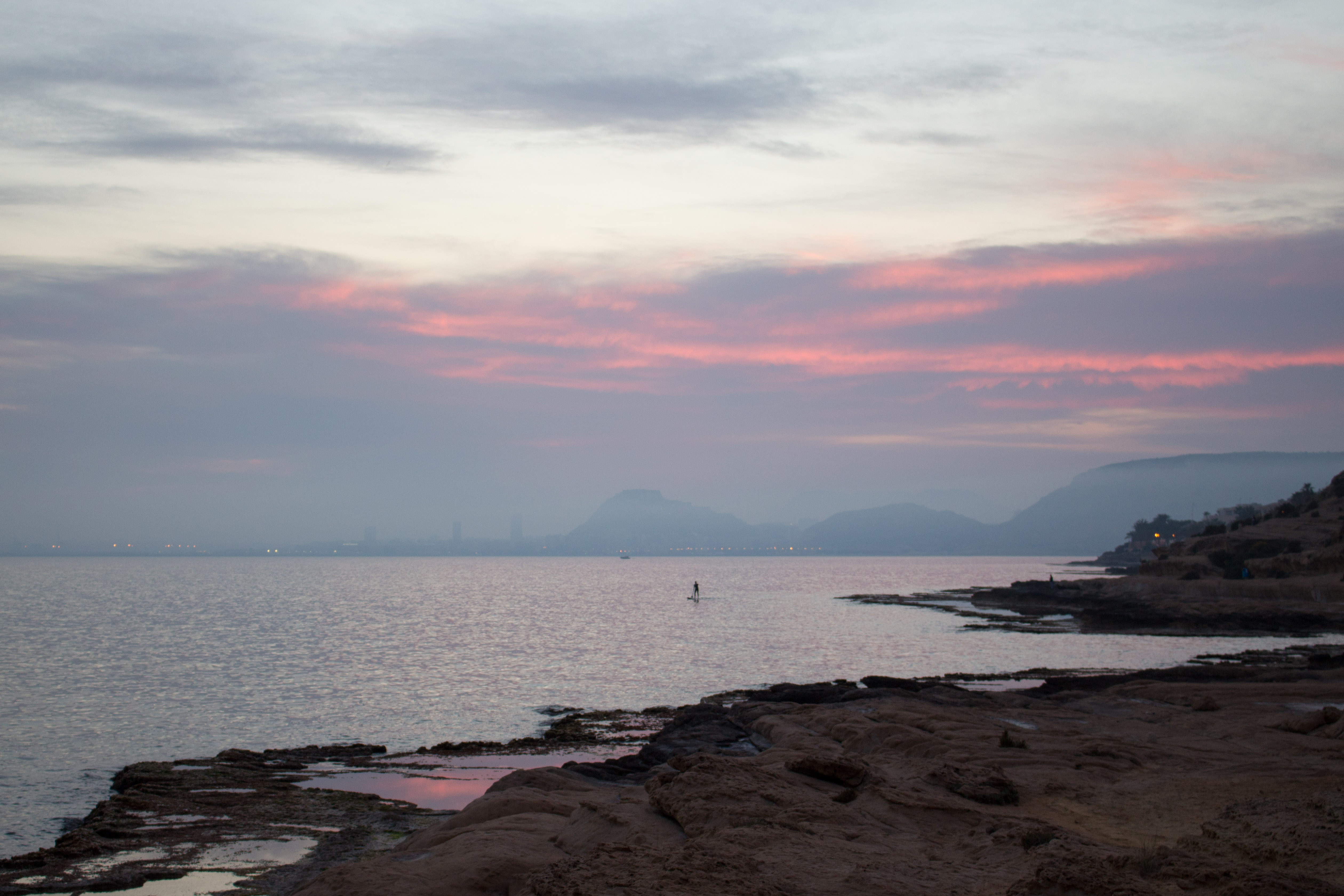 This is a photography of a Special Area of Conservation in Spain with the ID: ES5213032. Natura2000 entry, EEA entry